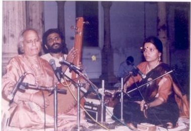 Hindusthani vocalist Pt.Jasraj with Rameshnarayan